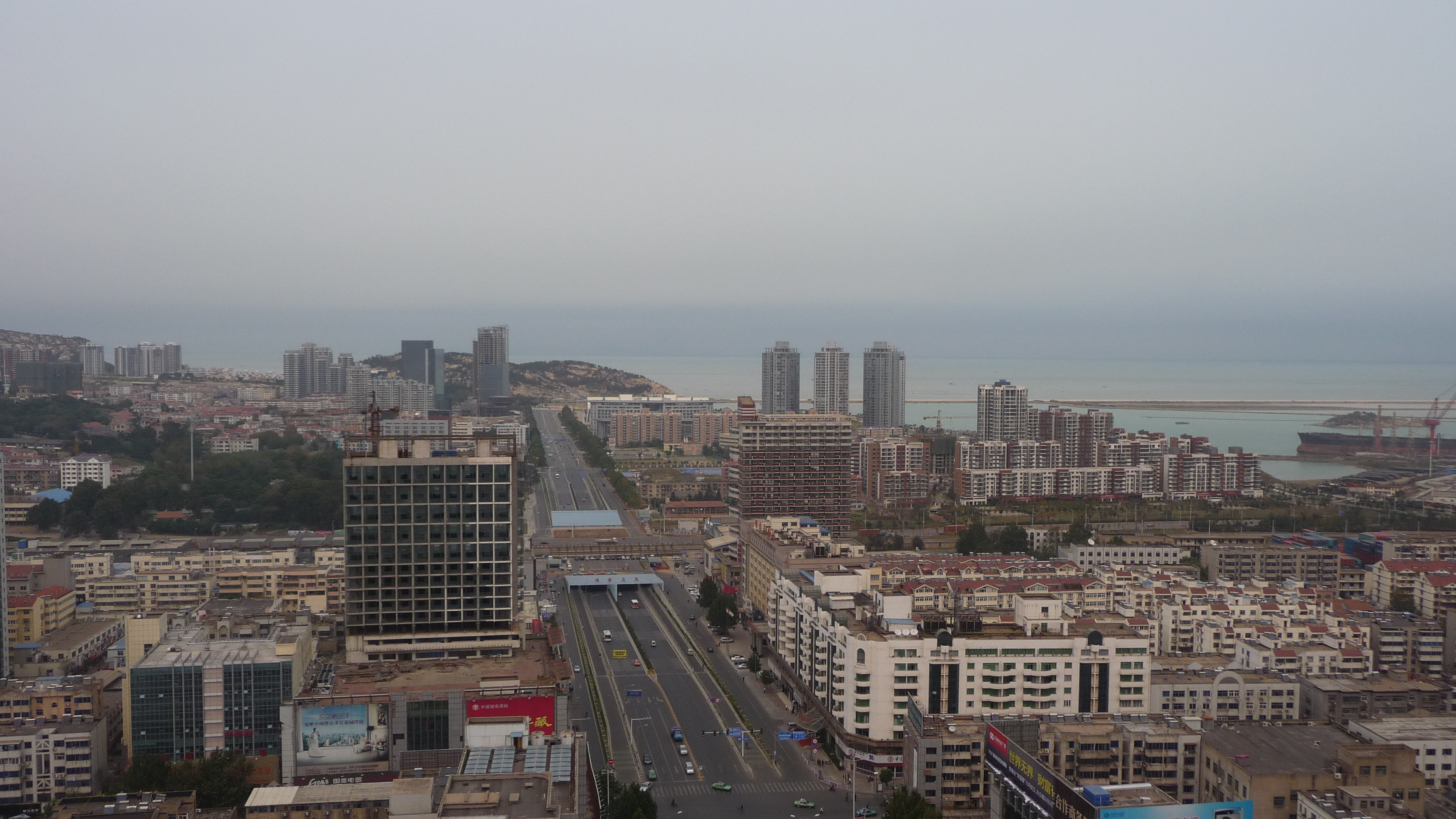 Lianyun District Birdview,Lianyungang City,Jiangsu Province, PRC